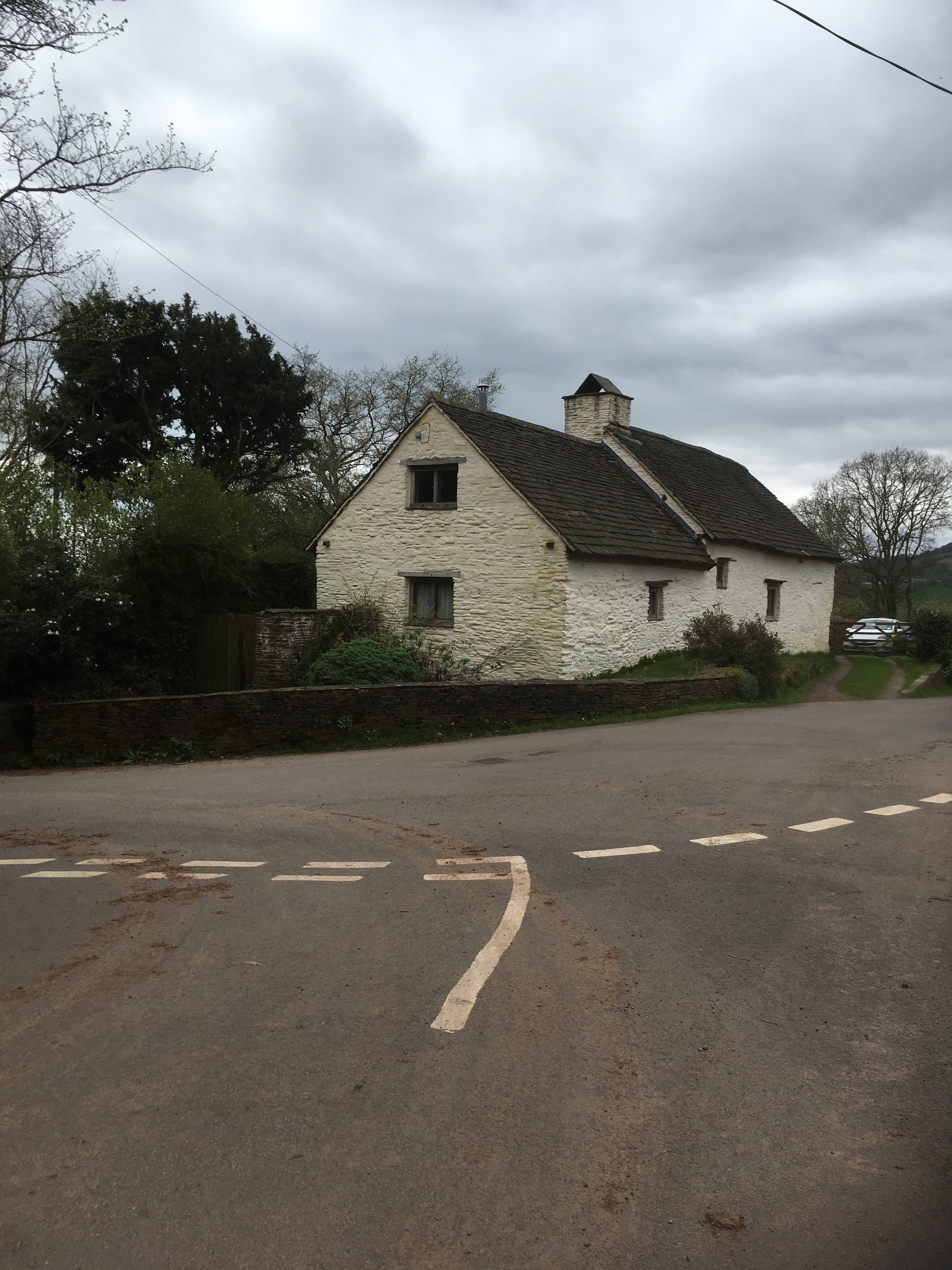 Lower Celliau, Llanarth